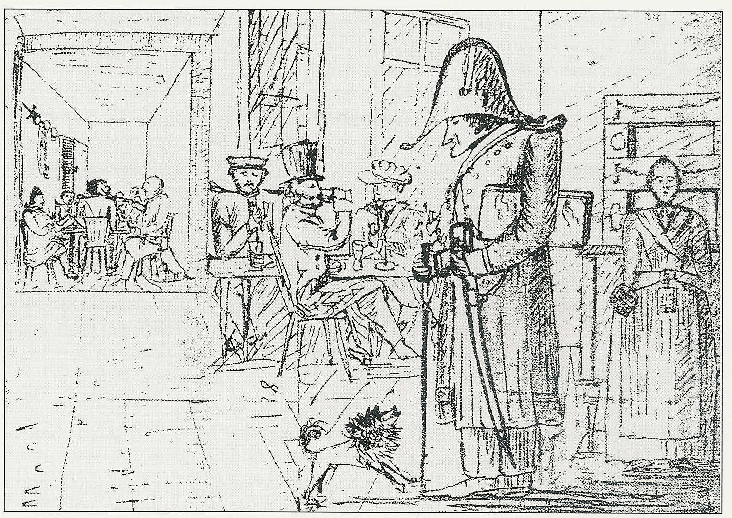 Johann Friedrich Payer (1775-1851), Oberpedell ("chief pedell"), Nicknamed "Pudel" of the University of Tübingen/Germany, inspects students in a pub, drawing fom the first half of the 19th century, copyright has expired, Public Domain